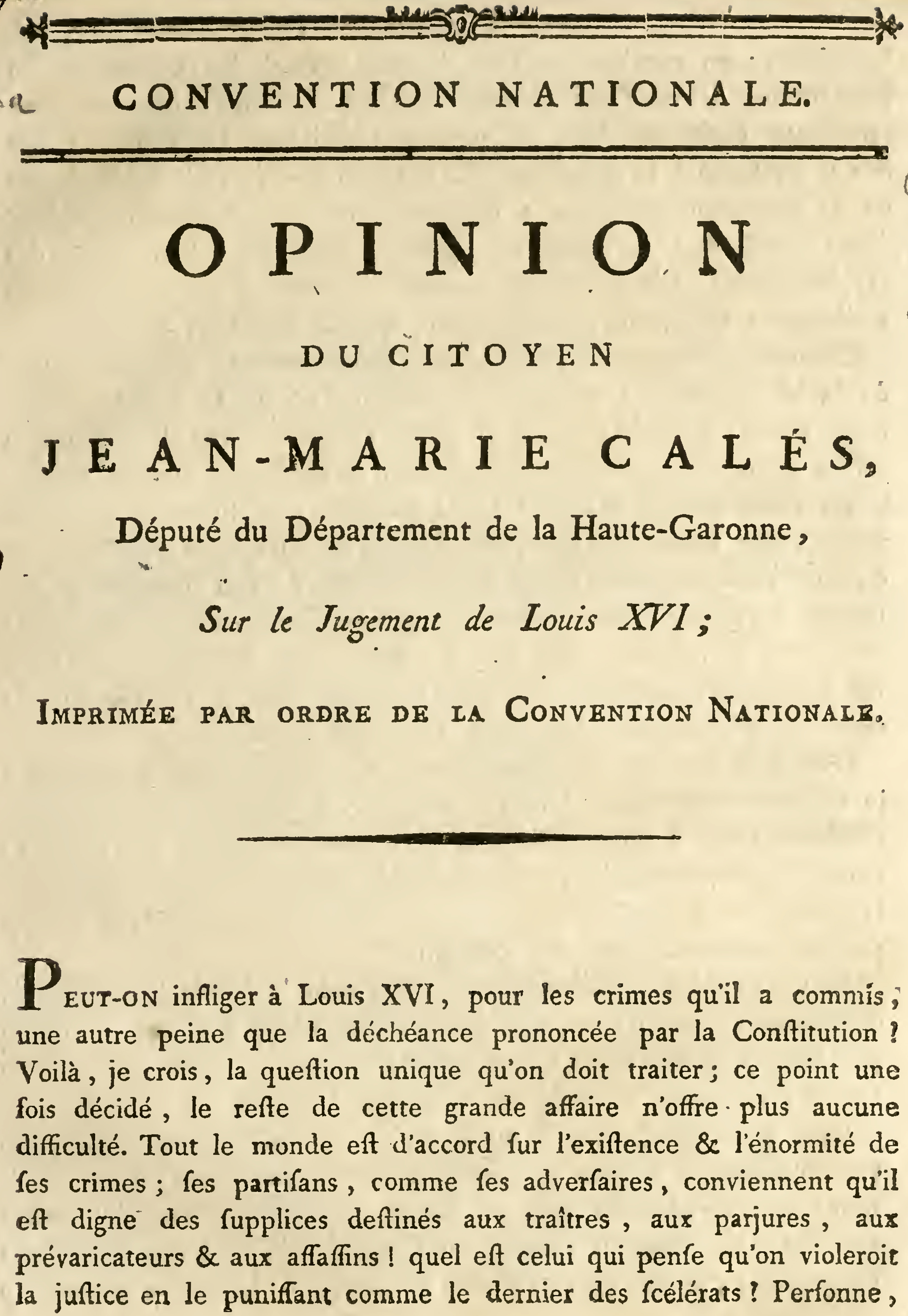 Opinion of citizen Jean-Marie Calès, deputy of the department of Haute-Garonne, on the judgment of Louis XVI. Printed by order of the National Convention Cover page. Publisher: Convention Nationale, France. Publication date: 1793.